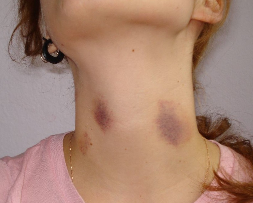 three Lovebites on a neck.